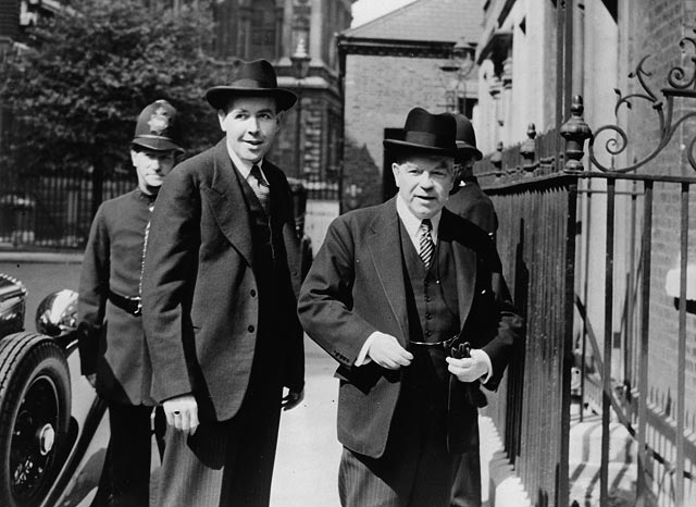 Rt. Hon. W.L. Mackenzie King (right) and Mr. Norman Robertson attending the Commonwealth Prime Ministers' Conference